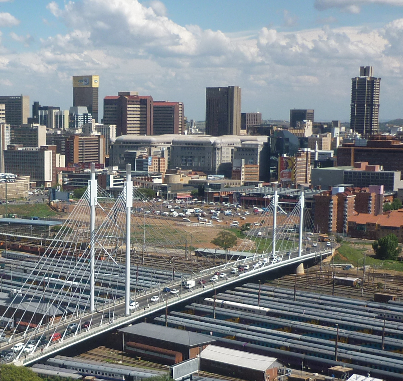 looking out over Johannesburg from Braamfontein. Nelson Mandela bridge over the train station. CBD in the background